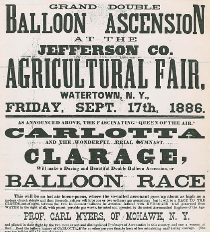 Poster of the Jefferson County Agricultural Fair of Watertoen, New York - advertising the balloon ascension of Carlotta on Friday September 17, 1886